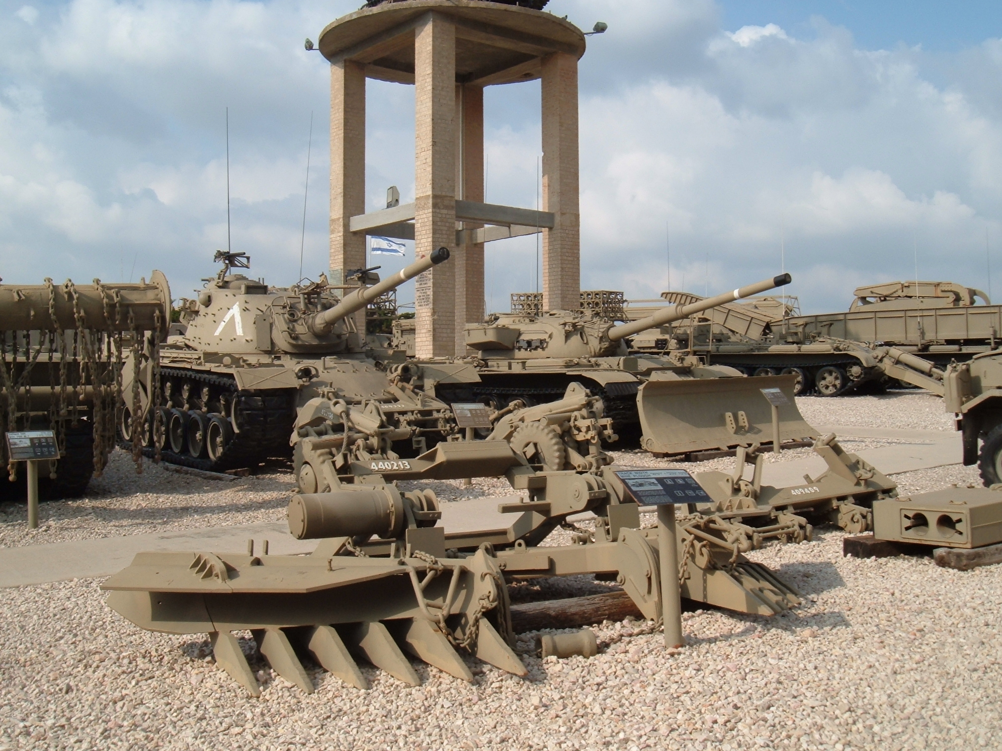 I took this pic.